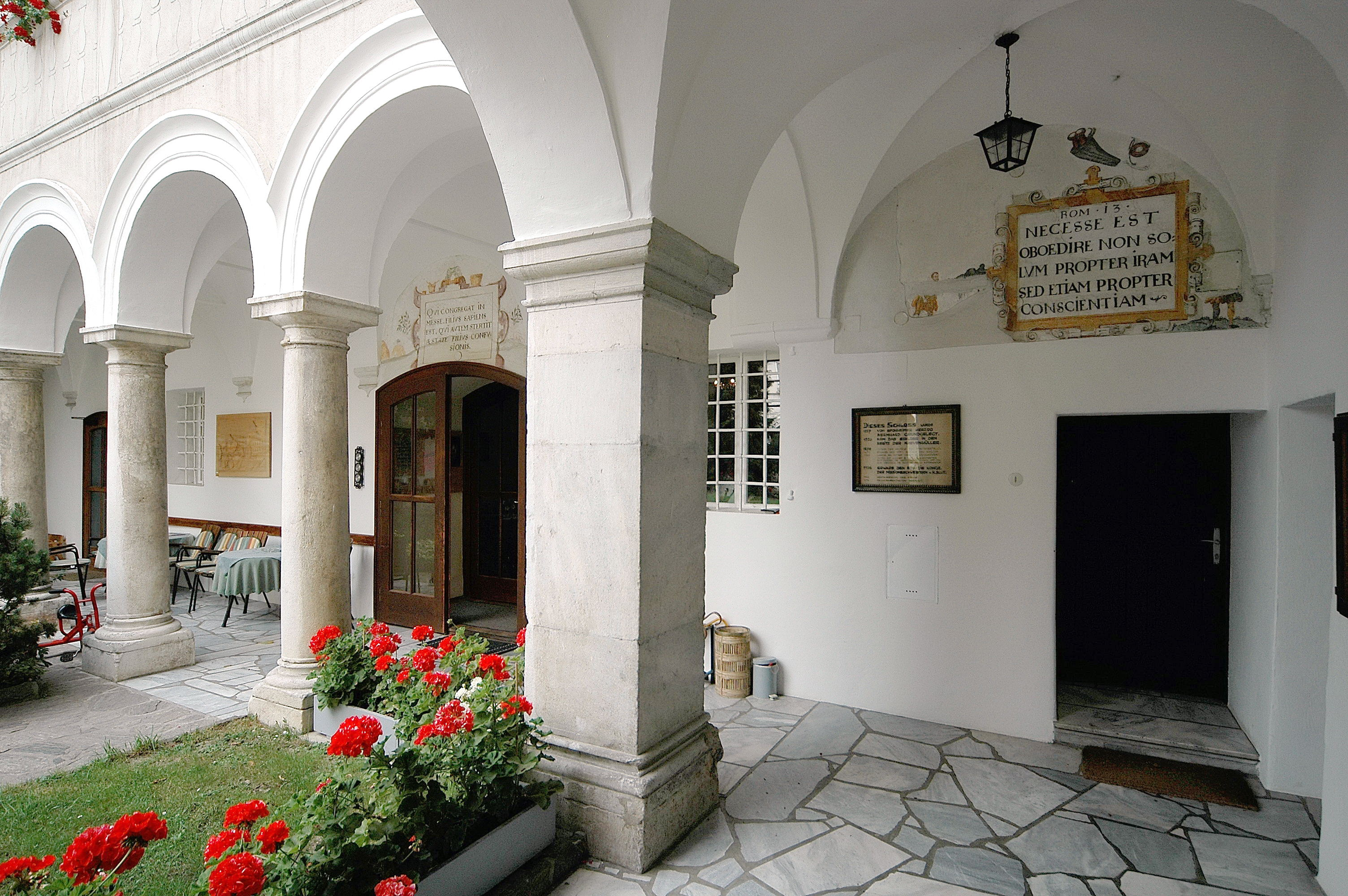 Inner yard of the monastery Wernberg, Klosterweg #2, district Villach-Land, Carinthia, Austria